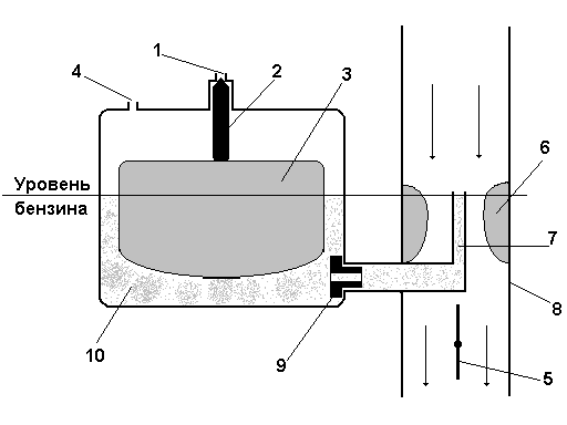 Schematic diagram of a carburetor.